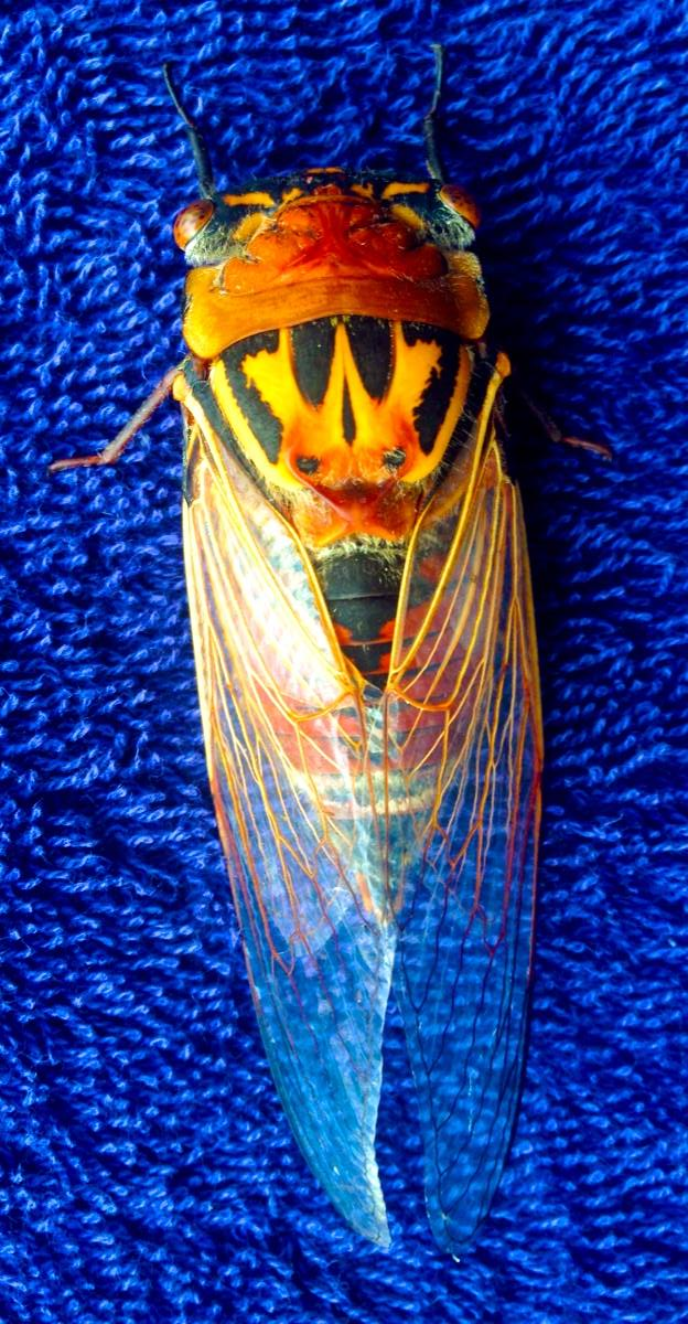 Double drummer (Thopha saccata) on carpet in Sydney